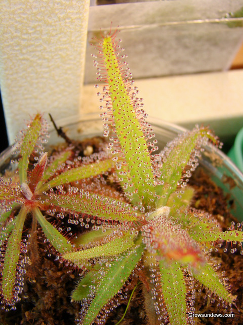 Drosera adleae